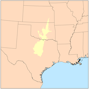 This is a map of the Cross Timbers region as defined by EPA Ecoregions. [1]